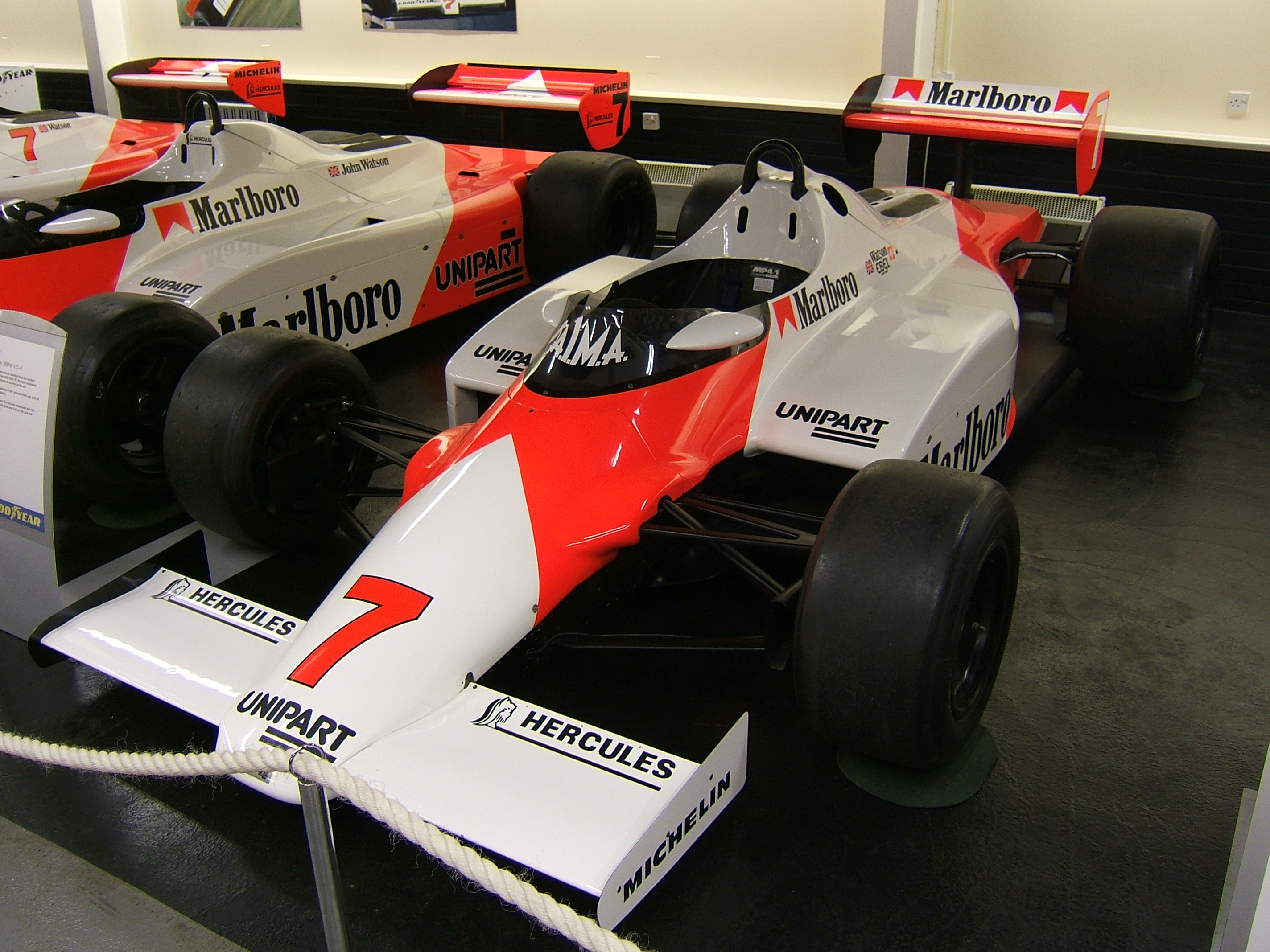 A McLaren MP4/1C Formula One car, at the Donington Collection museum, Leicestershire, UK. The differences between the rear bodywork of this car, designed to run without "ground effect", and its predecessor MP4/1B ground effect car (behind) are clear to see.